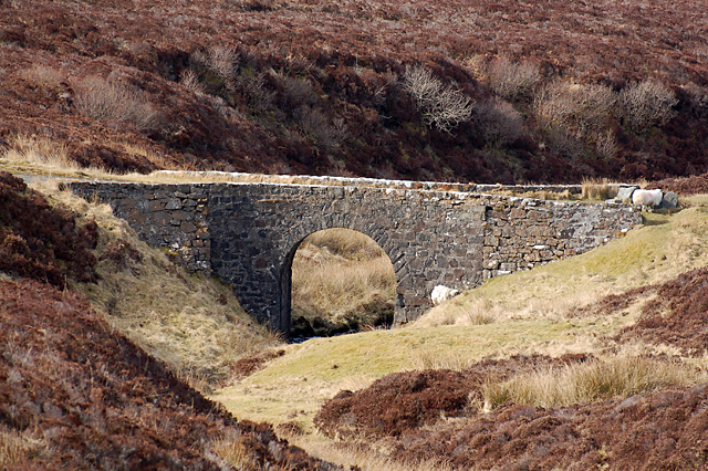 Fairy Bridge The Fairy Bridge is associated with many Skye legends, evil doings, supernatural events, murders, ghostly sightings and other strange goings-on. It is a listed building. There are fairies living under it to this very day.